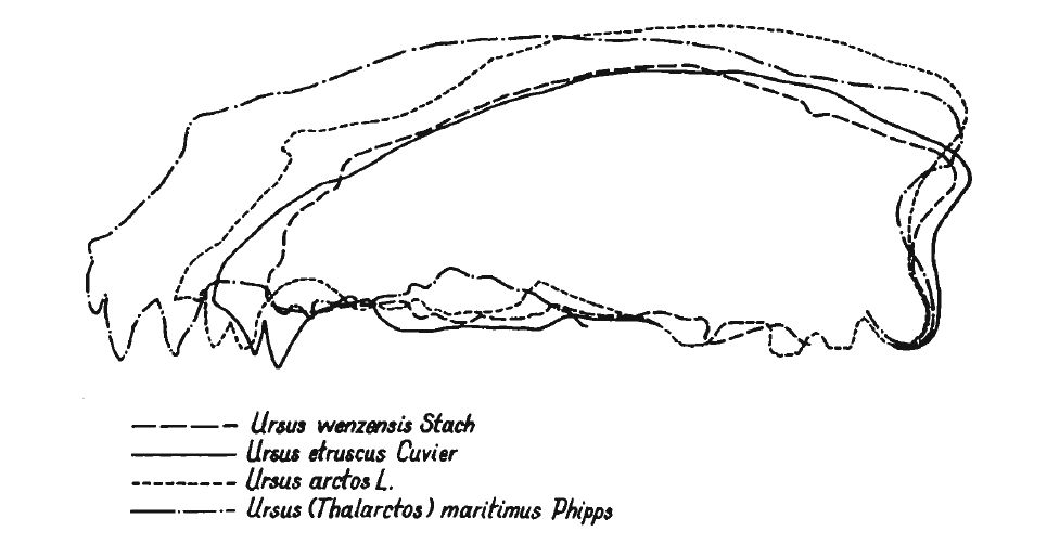 Outlines of profiles of skulls: Ursus wenzensis Stach, Ursus etruscus Cuvier, Ursus arctos L.; Ursus maritimus Phipps